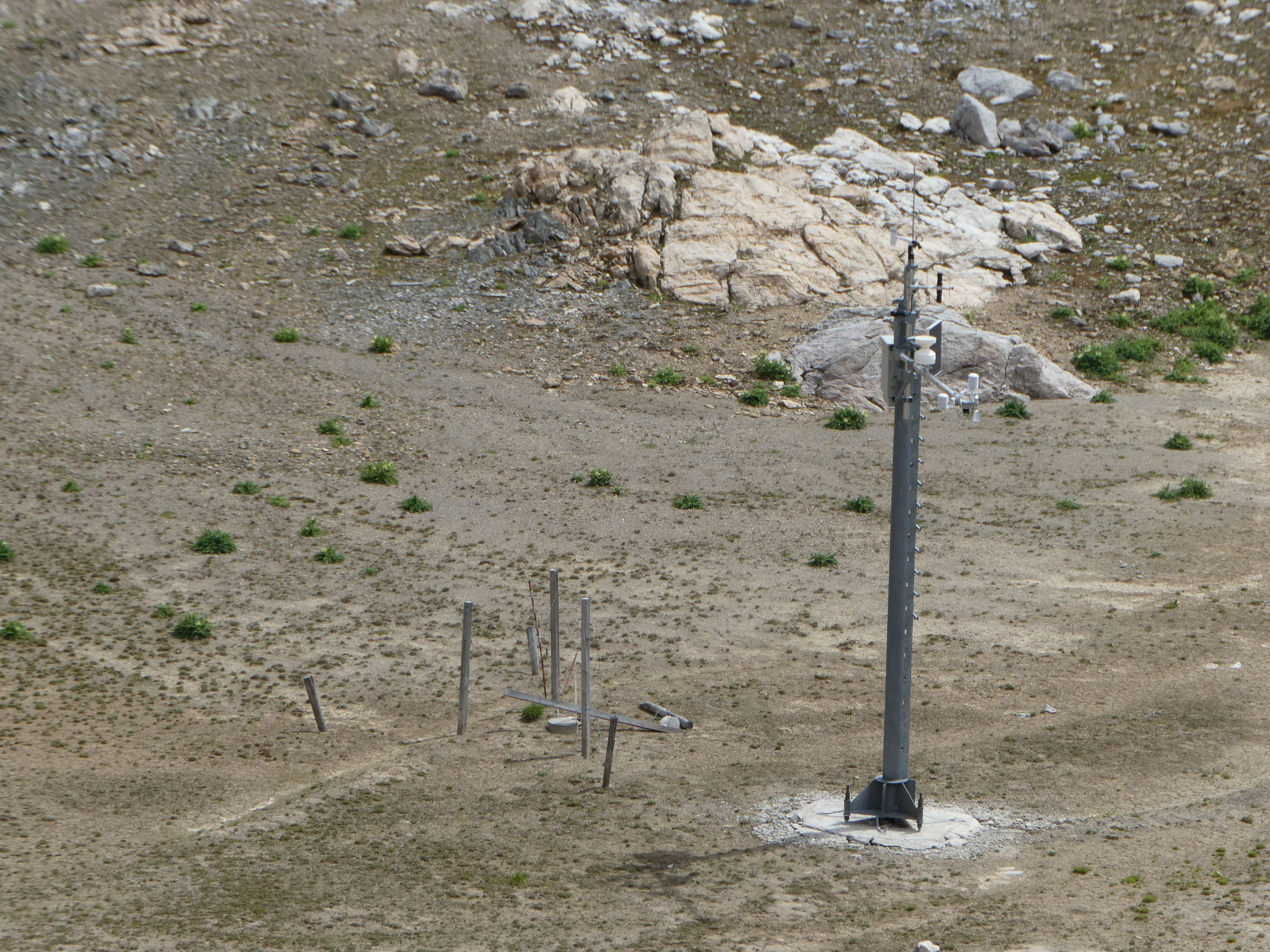 Weather station near Furschela da Tschitta (Surses - Bergün/Bravuogn, Grison, Switzerland)